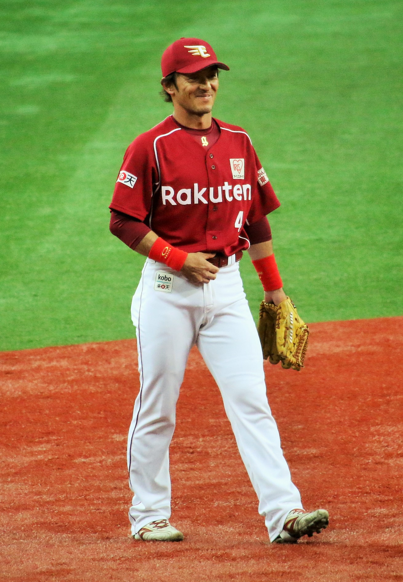 Mitsutaka Gotoh, infielder of the Tohoku Rakuten Golden Eagles, at Osaka Dome.